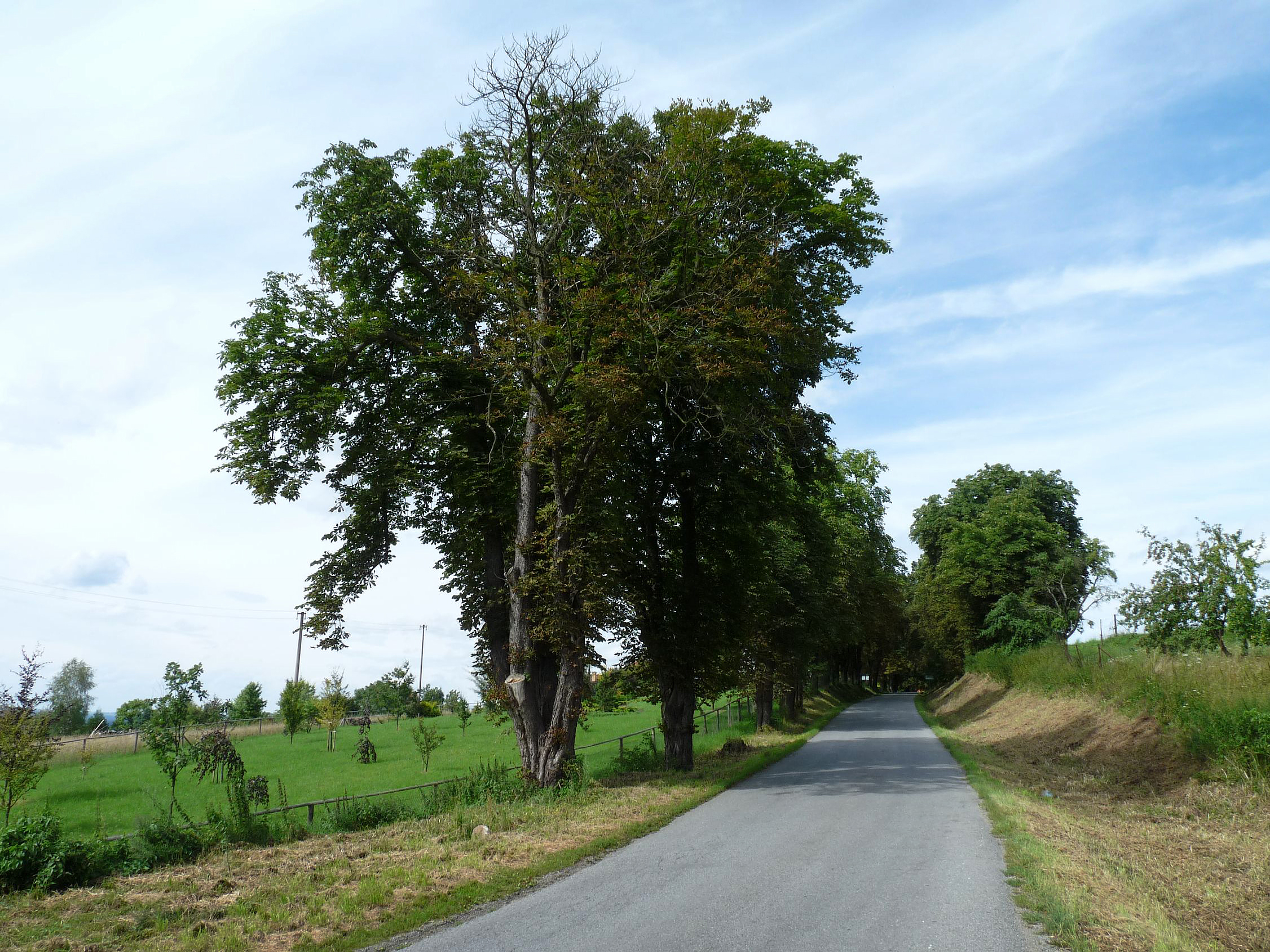 Chestnut avenue Radenín, a village in Tábor District, Czech Republic.